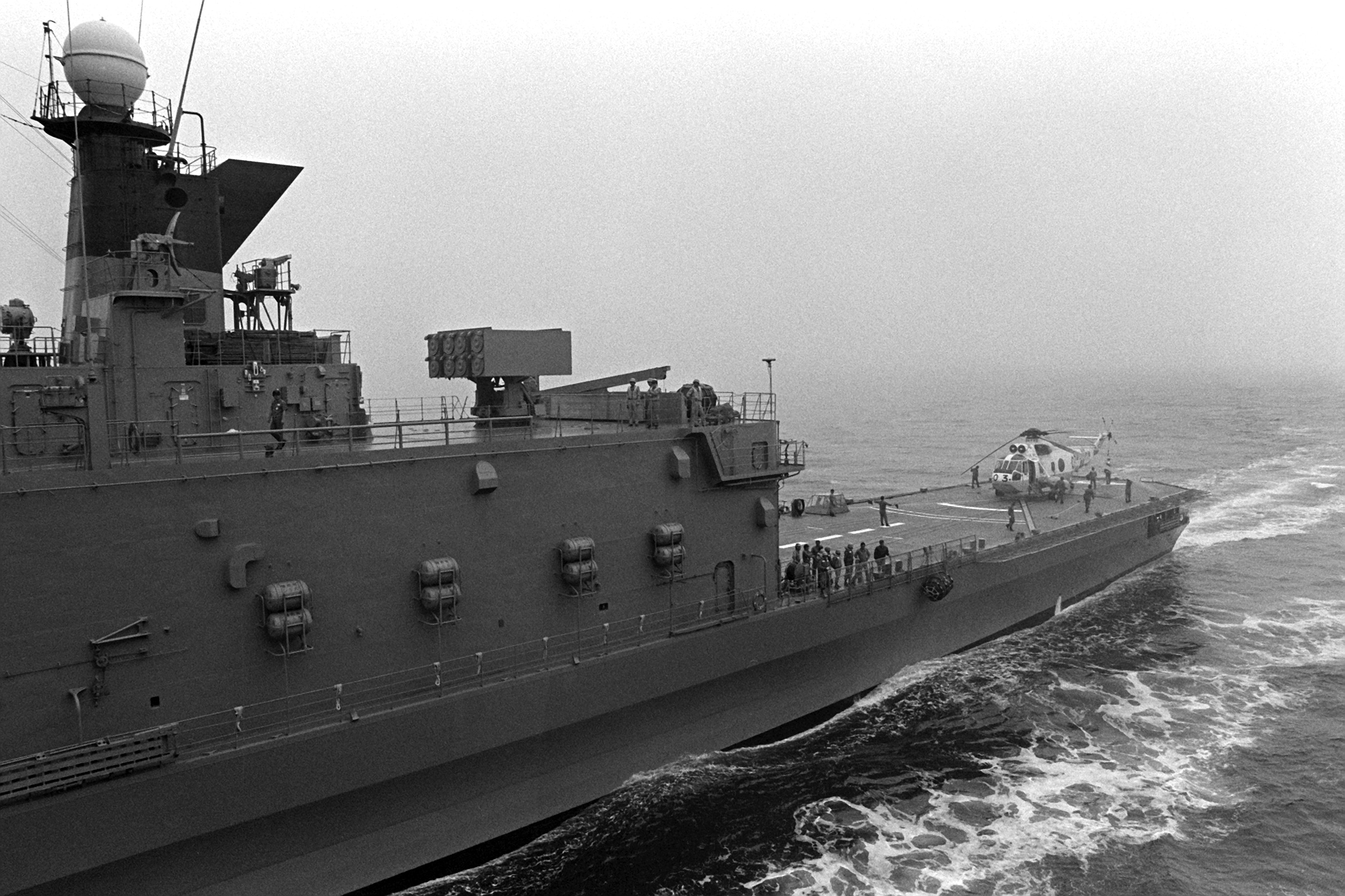 A port view looking aft of the Japan Maritime Self-Defense Force destroyer Shirane (DDH-143) pulling alongside the amphibious command ship USS Blue Ridge (LCC-19).